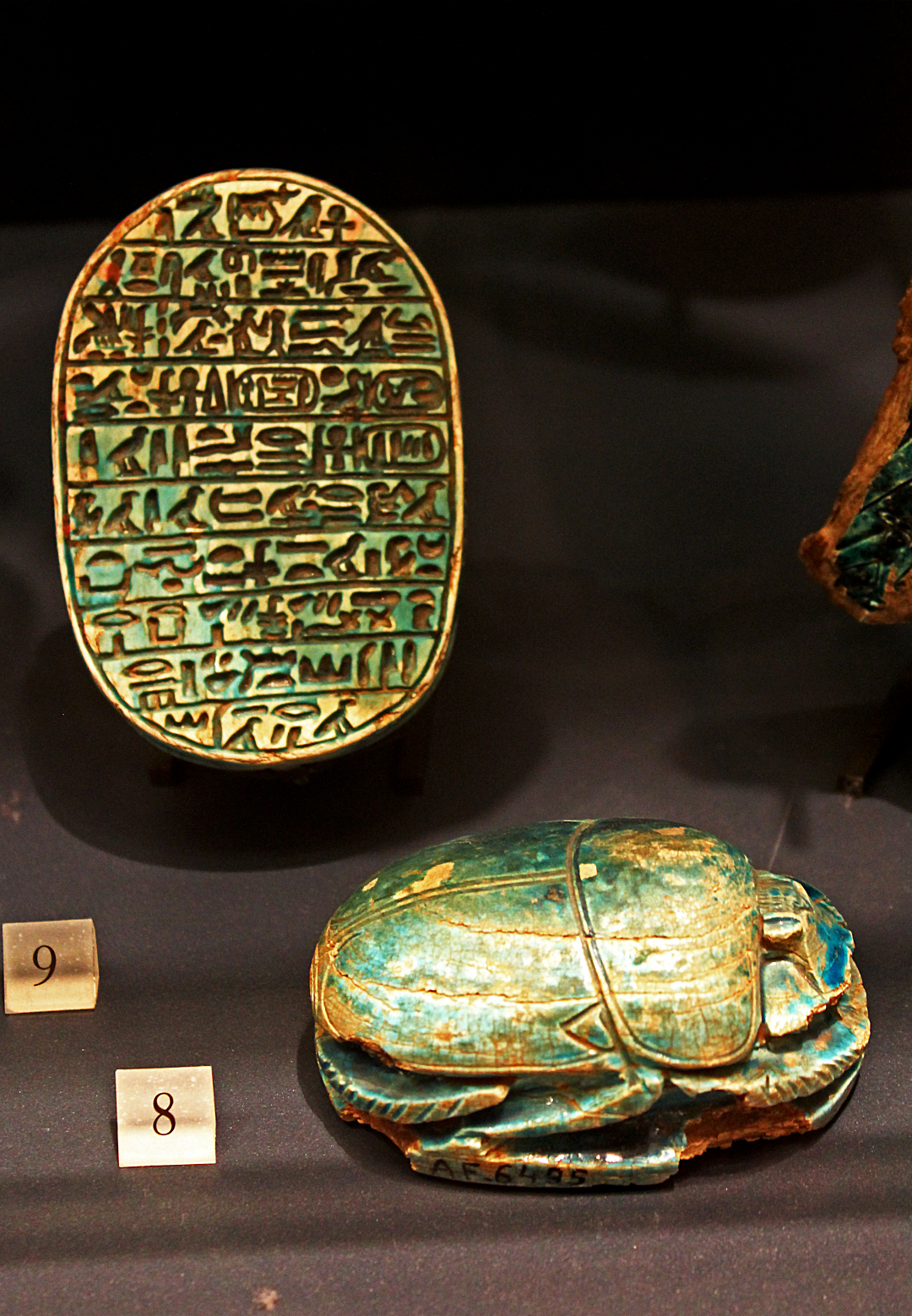 Commemorative scarabs of Amenhotep III, Musée du Louvre (#8 hunting for the lions, #9 in the name of Amenhotep III and of Tiye